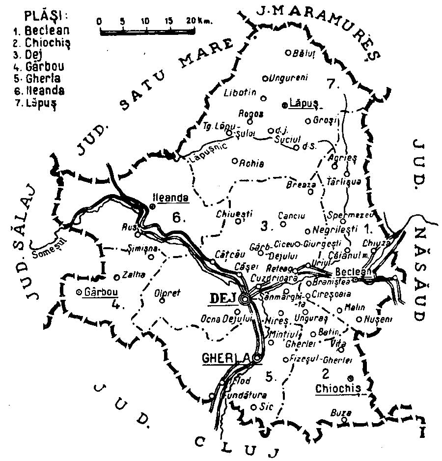 Map of Someș interwar county, Kingdom of Romania (1938).